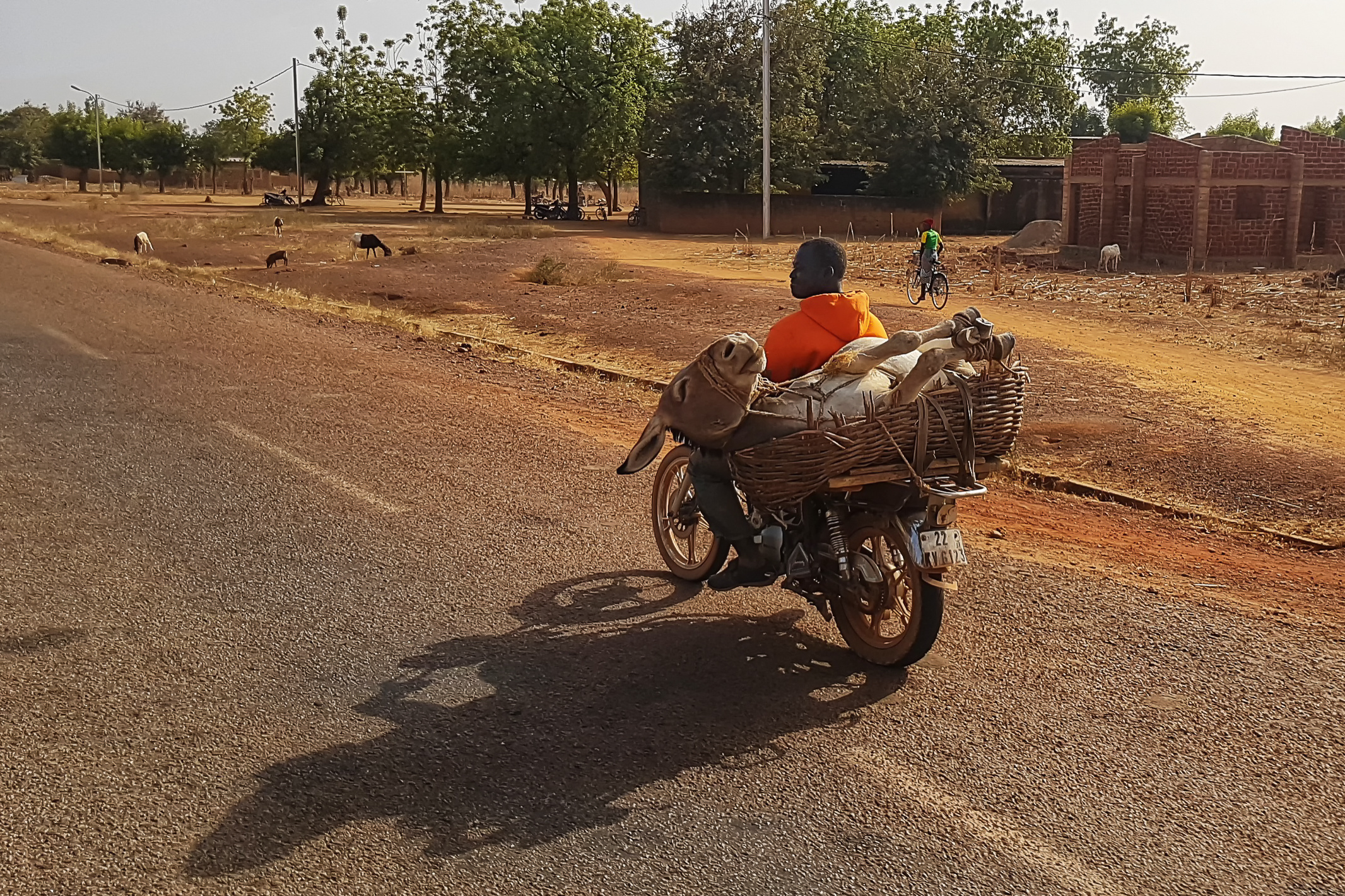 Donkey being transported possibly to the market to be sold for either meat or skin or both. This is an image with the theme "Africa on the Move or Transport" from: Burkina Faso